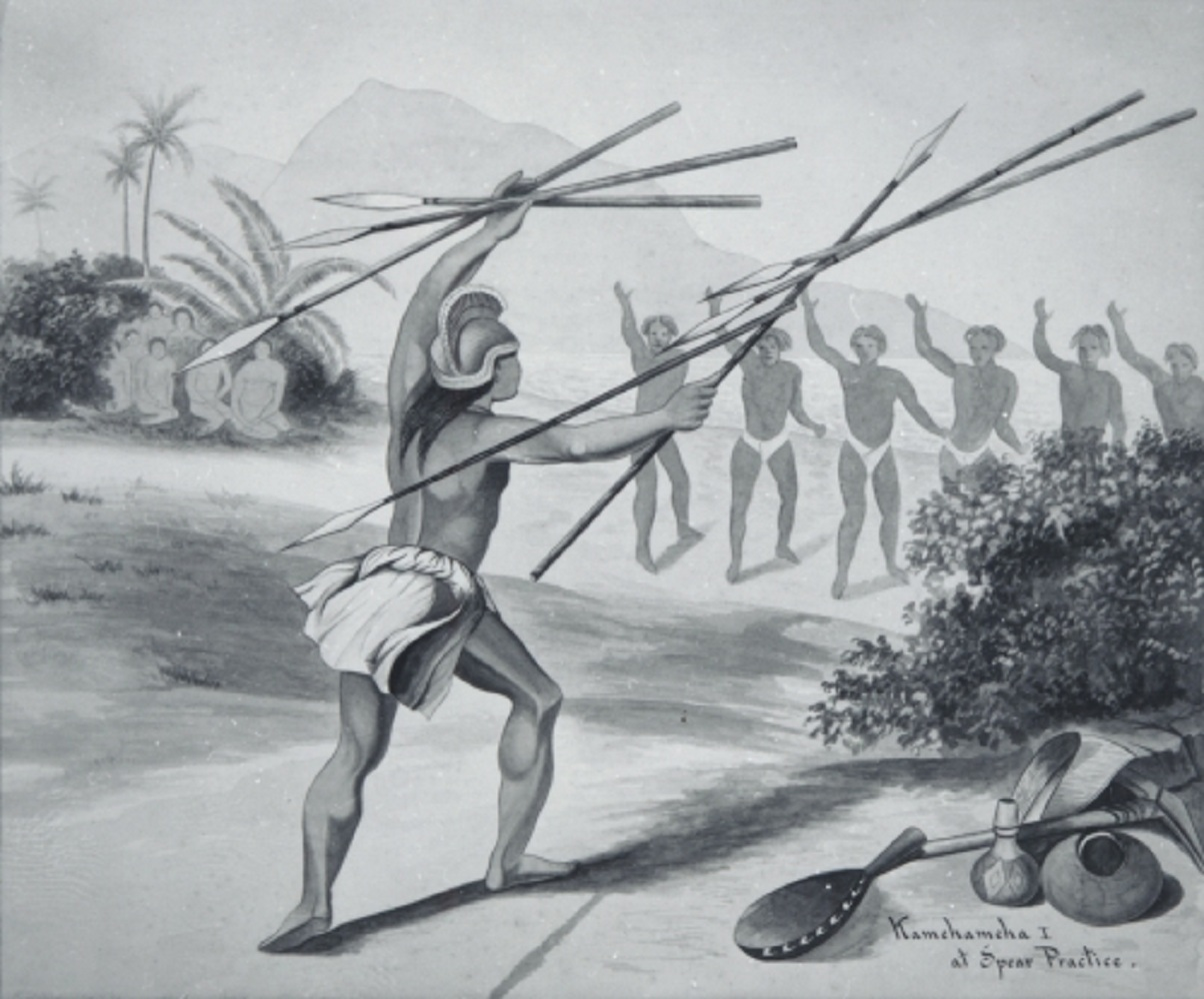 Kamehameha I at Spear Practice. ca. 1872. India ink and wash drawing by an unknown artist. Adapted from: Rev. J.G. Wood. The Uncivilized Races of Man in all Countries of the World. Hartford: J. B. Burr, 1872. vol. II, opp. page 1088. This depicts a scene witness by British explorer George Vancouver on his many visits to Hawaii.